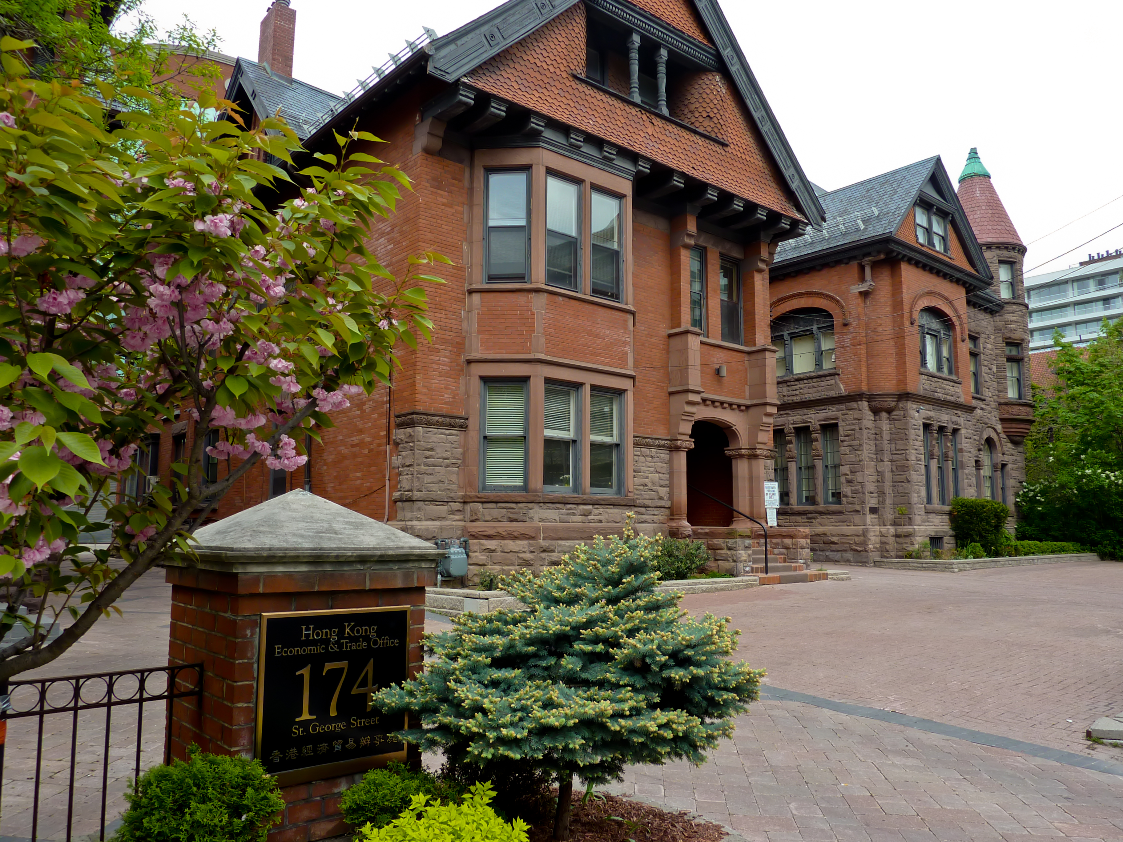 The Hong Kong Economic & Trade Office located on St. George Street just north of Bloor Street West in Toronto's Annex neighbourhood.